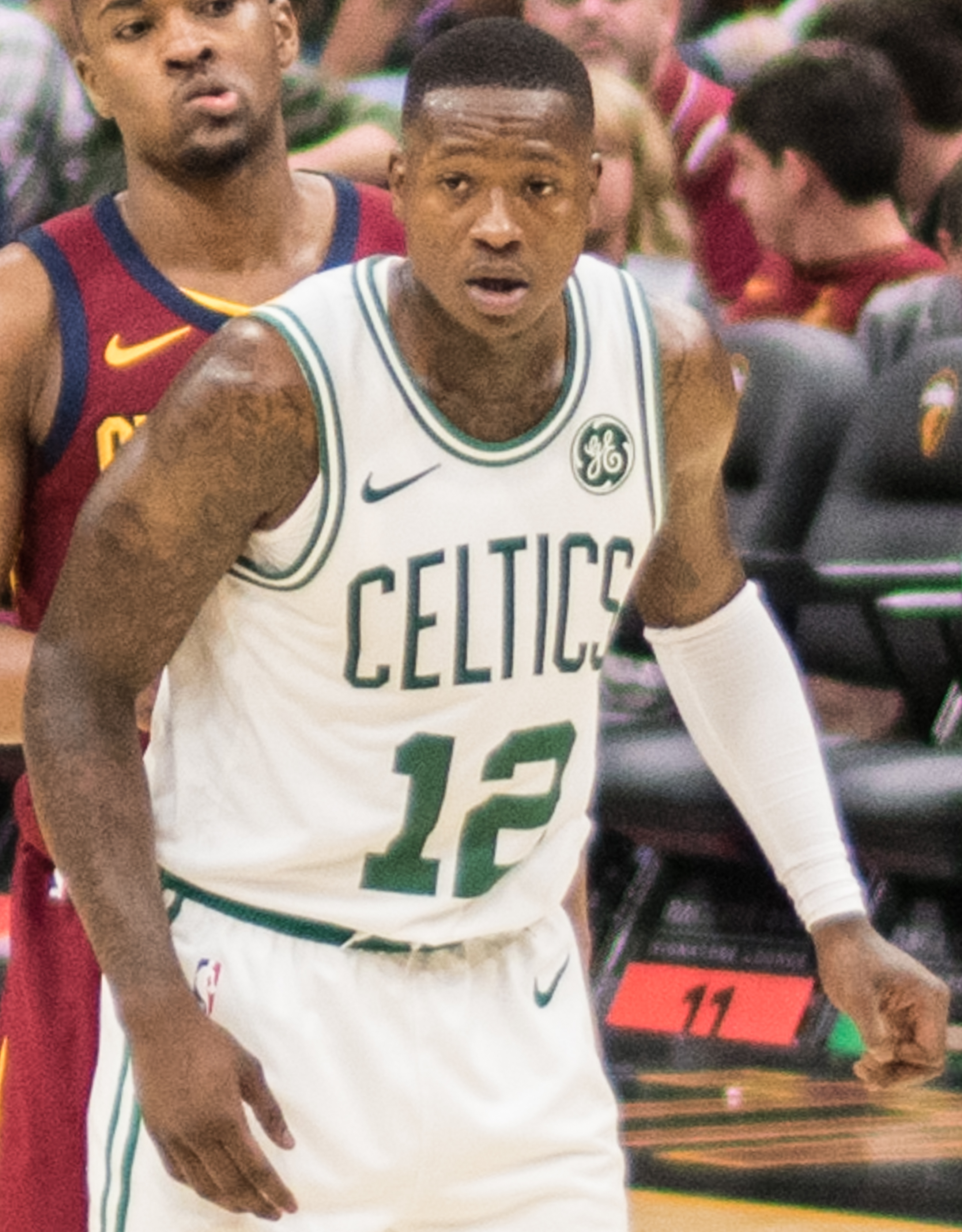 Billy Preston